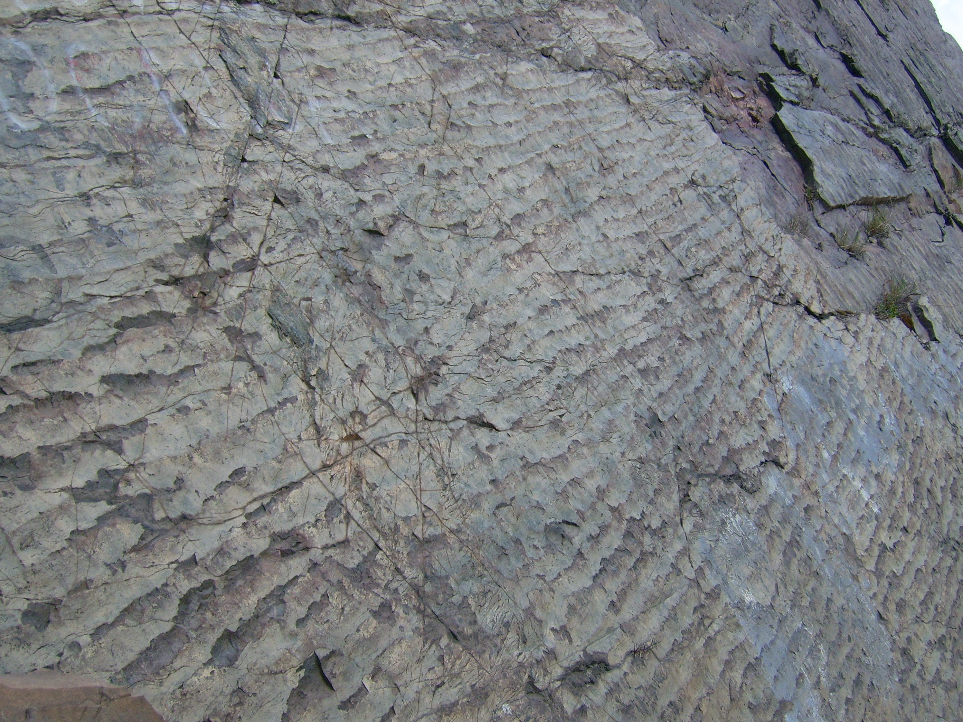 Ripple Rock formation, Johnson Township, Ontario.